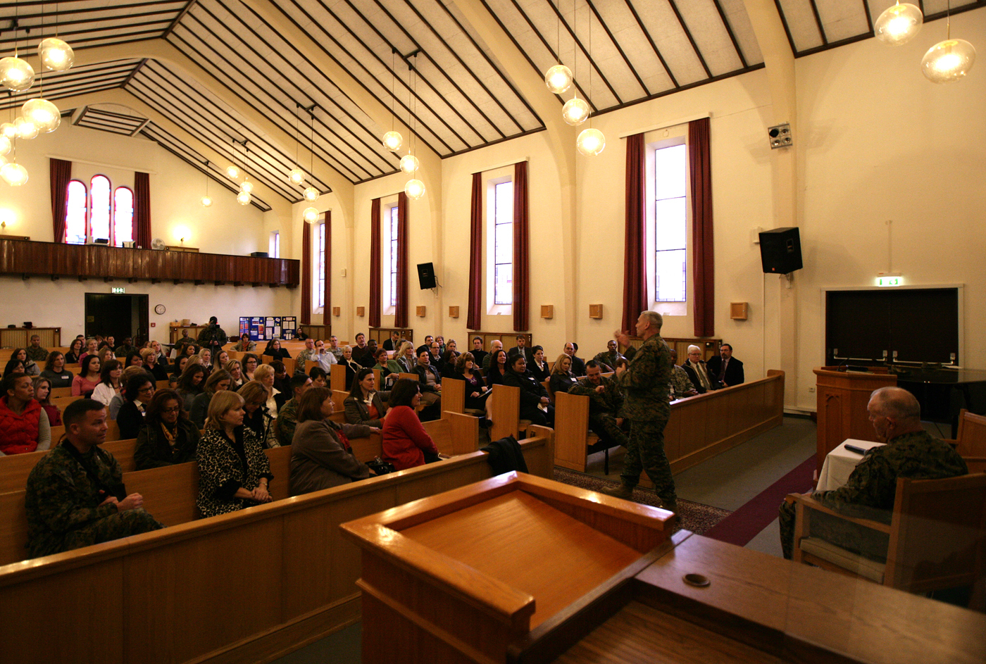 Lieutenant Gen. John M. Paxton, Marine Forces Africa commanding general, speaks to more than 50 Marine spouses and 20 United States Army Garrison Stuttgart community leaders at a Family Readiness town hall meeting held at the Panzer Kaserne Chapel, Jan. 11. Paxton, who also heads the Family Readiness Committee for the Marine Corps talked to the history of the program, the tools available and the impact of financial restraints. He was joined by Lt. Gen. Dennis J. Hejlik, Marine Forces Europe, commanding general.